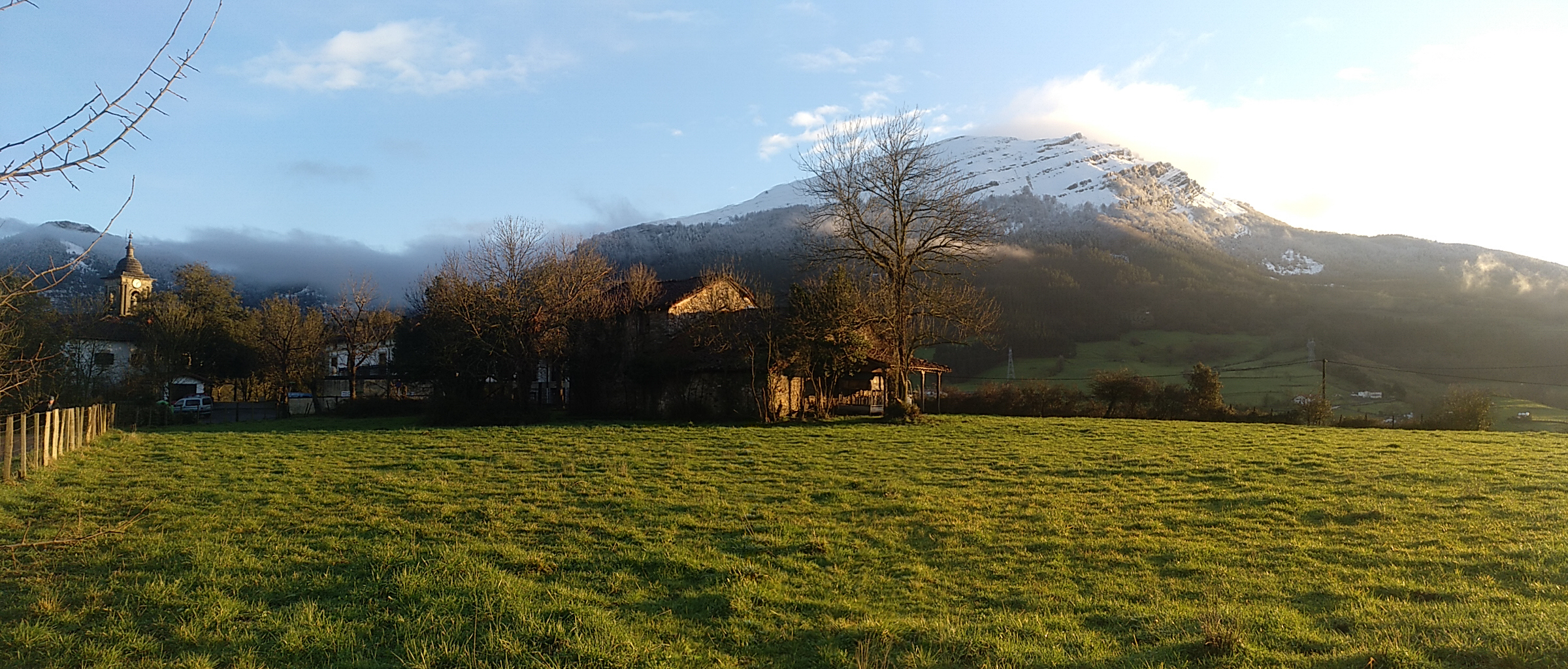 Aozaratza quarter and Kurtzebarri mountain (Aretxabaleta)